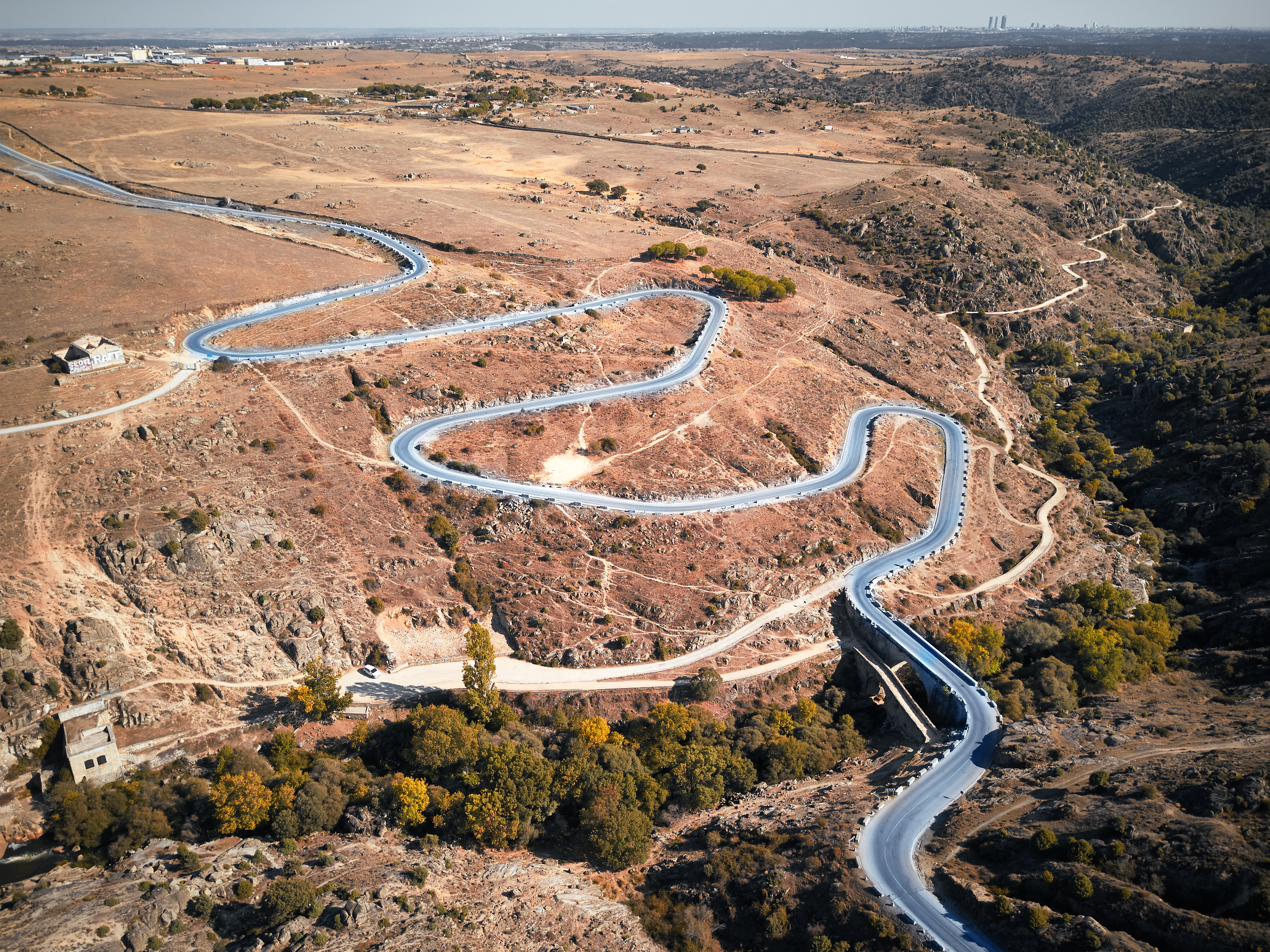 Road of Hoyo de Manzanares (M-618) and Puente del Grajal